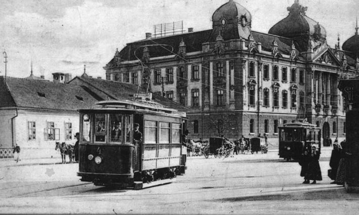 A Siemens tram in Oradea, built in Győr, Hungary; running through the actual stradă Republicii in direction Găra Principale